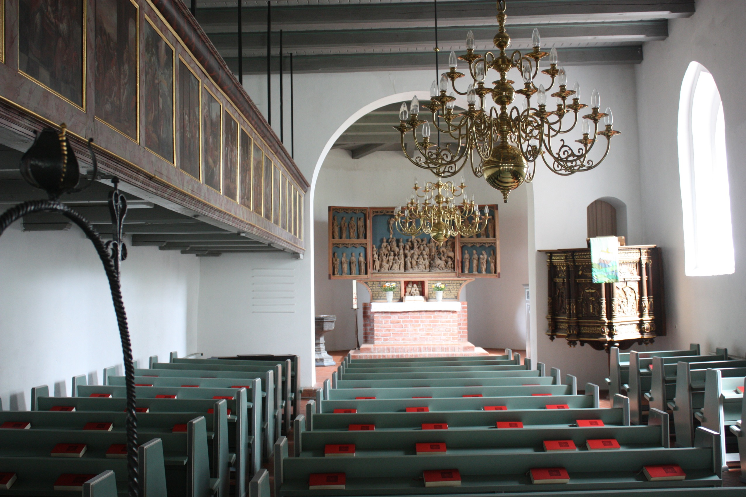 Odenbüll, Kirche St.Vincenz (Nordstrand, OT Odenbüll) - Innenansicht This is a photograph of an architectural monument. .1